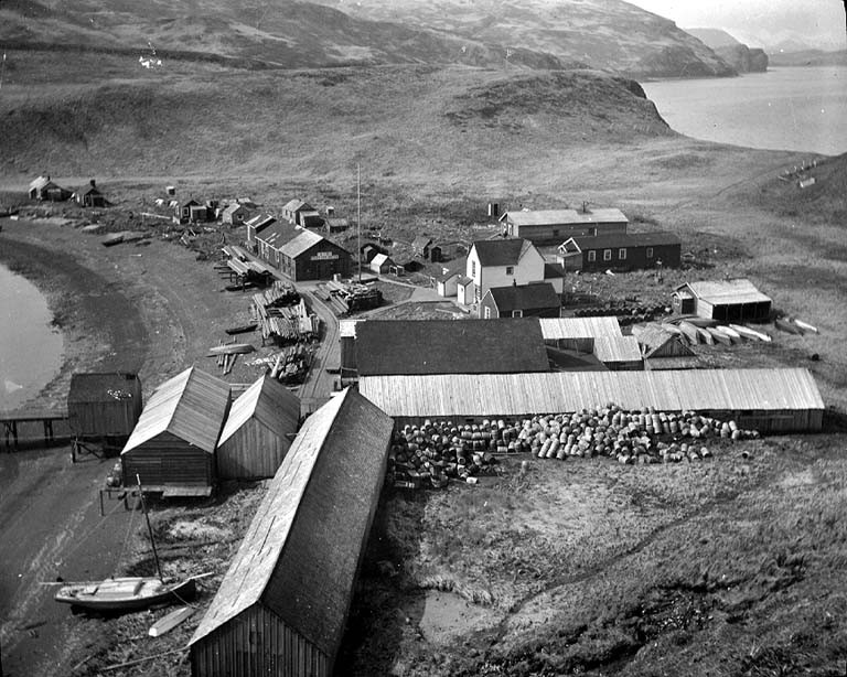 From John Cobb field notebook: Union Fish Co.'s codfish station, Pirate Cove, Popef Island, June 1912 Subjects (LCSH): Union Fish Company; Cod fisheries--Alaska--Pirate Cove